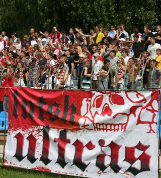 Supporters of the FC Volyn Lutsk